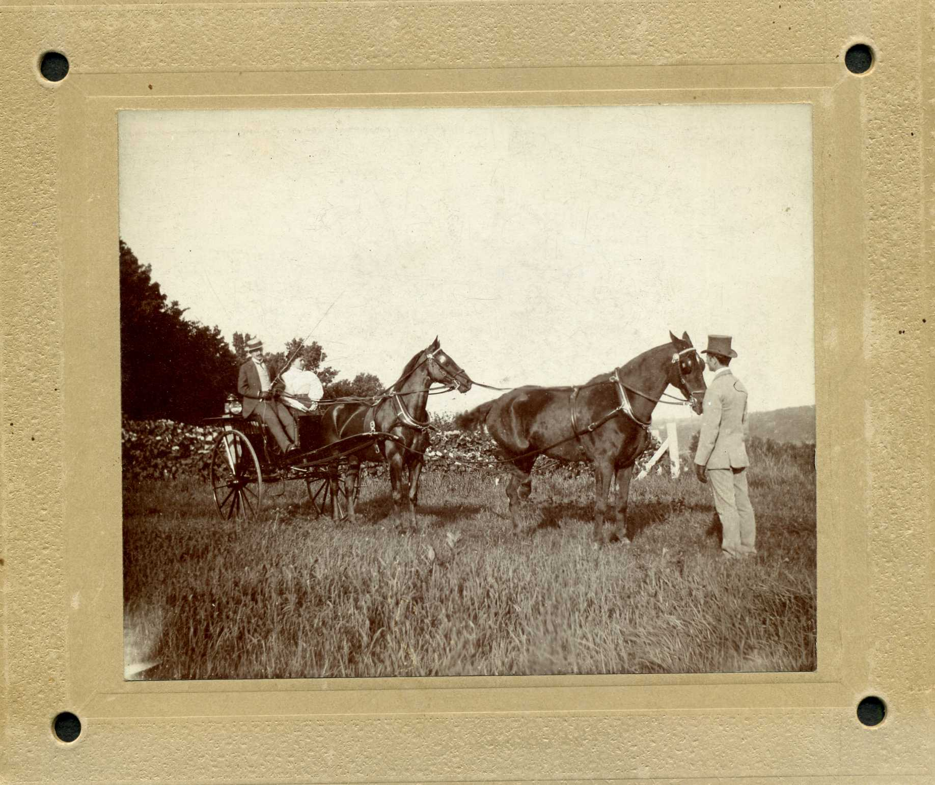 Another view of the horses. 1890s. John B. Gough house, West Boylston, MA